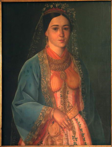 Wedding portrait of Mileva Naumovic; The Principality of Serbia, Kragujevac, 1852; oil on canvas; courtesy of the Collection Secerovic Conic – House of Jevrem Grujic, Belgrade